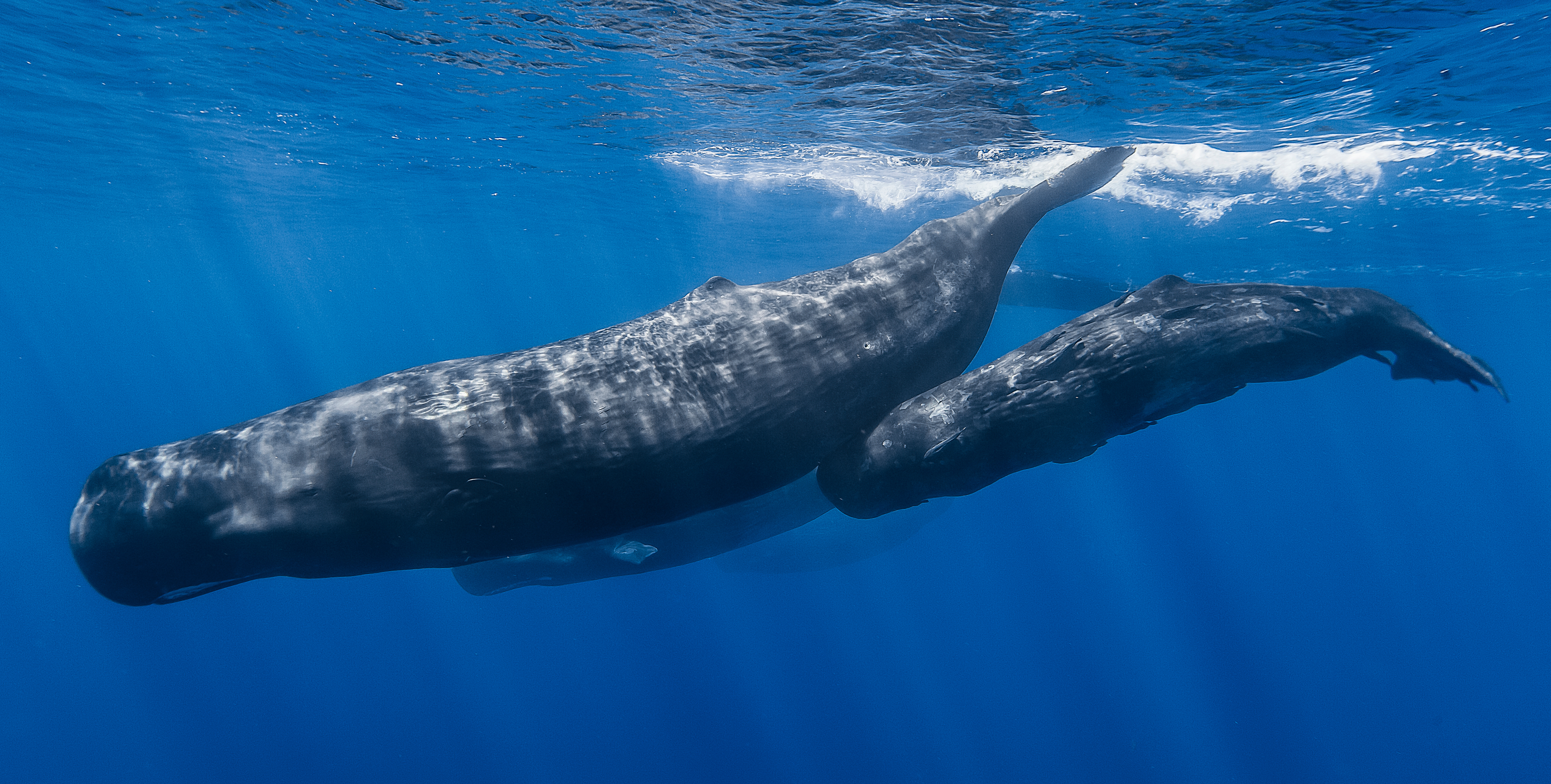 A pod of sperm whales off the coast of Mauritius.